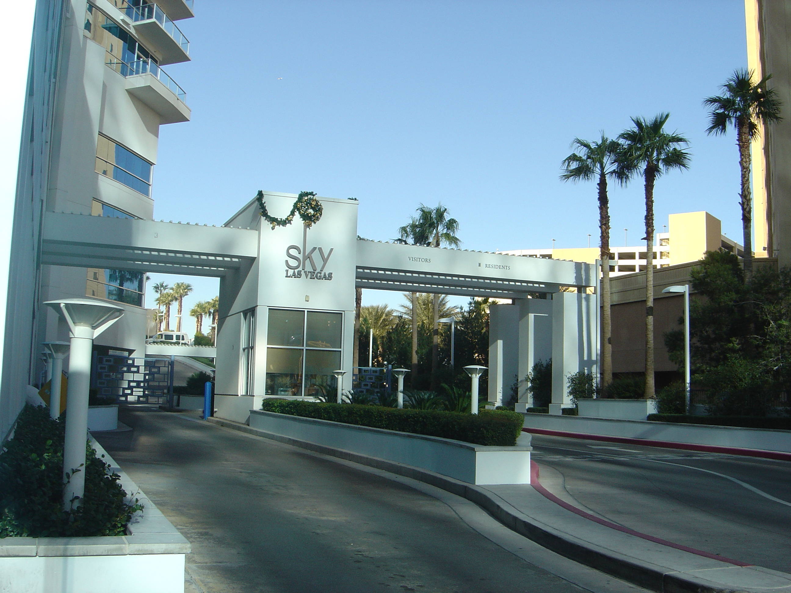 Entrance to Sky Las Vegas, a high-rise condo tower on the Las Vegas Strip.